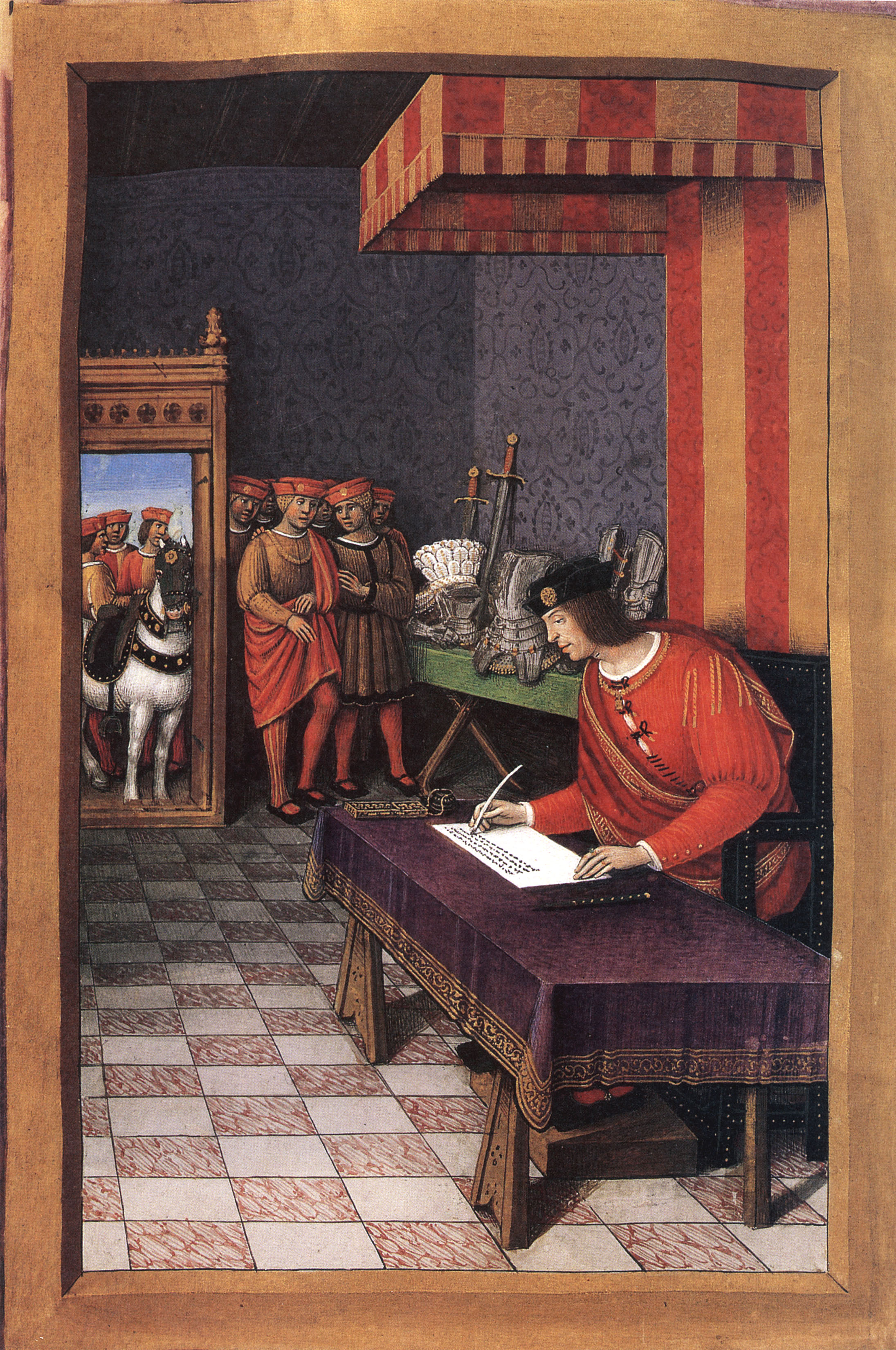 Poetic Epistle of Anne of Brittany and Louis XII. Illuminated by Bourdichon. F. 1v: Illustration to Epistle 4. Early 16th century. "Louis writes a letter to his wife inviting her to come and visit him in Italy. His valour is symbolized by the armour and swords seen in the depths of the room and by the horse waiting for him at the door. The portrait of the King is not as good a likeness as the depiction of Anne." pg 172.